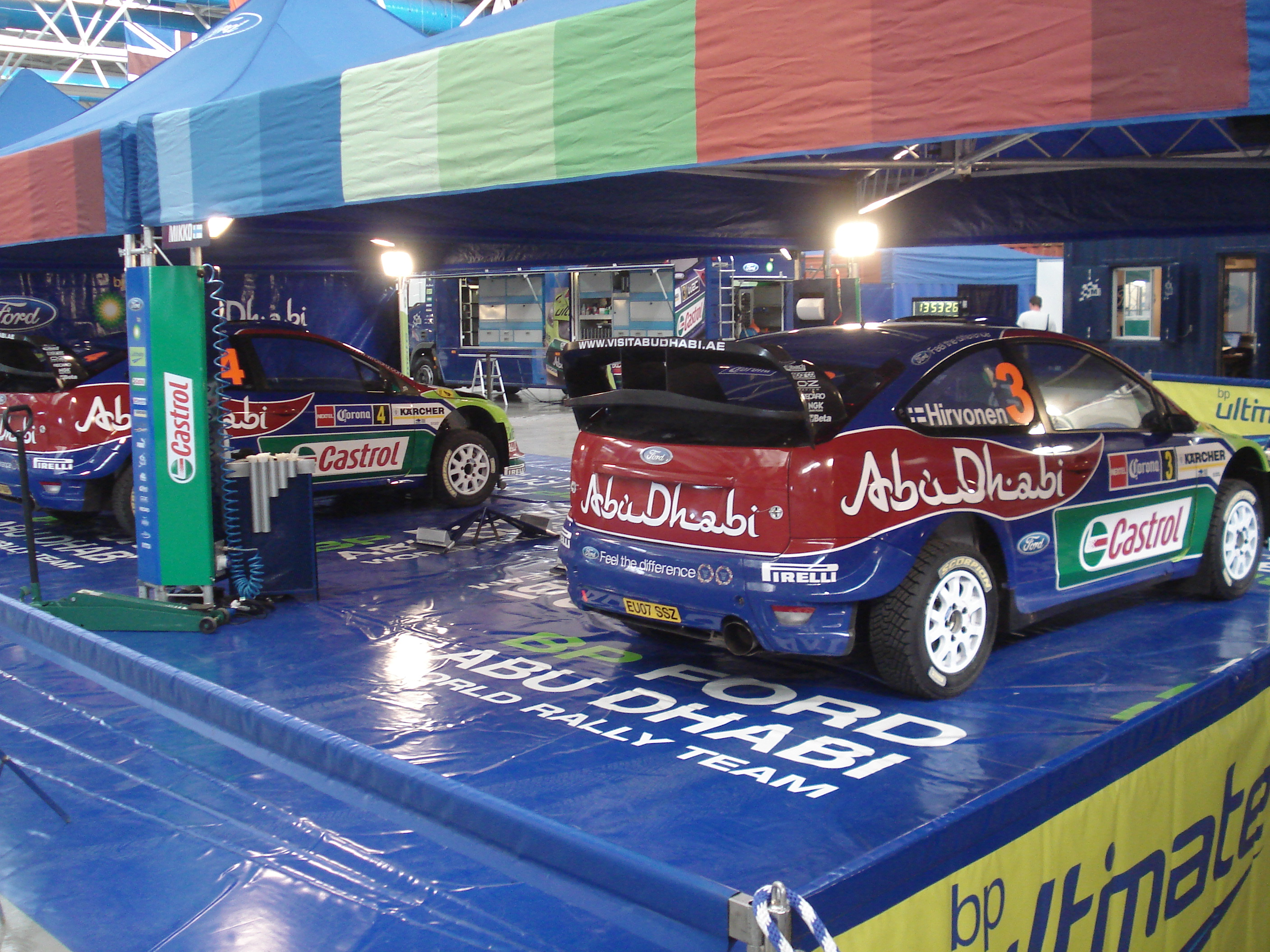 Both cars of the BP Ford Abu Dhabi World Rally Team sit prior to the 2008 Rally Mexico at rally base in the Poliforum in Leon, Mexico.